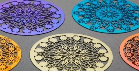 Coasters made of stainless steel colored by chromium oxide layer.